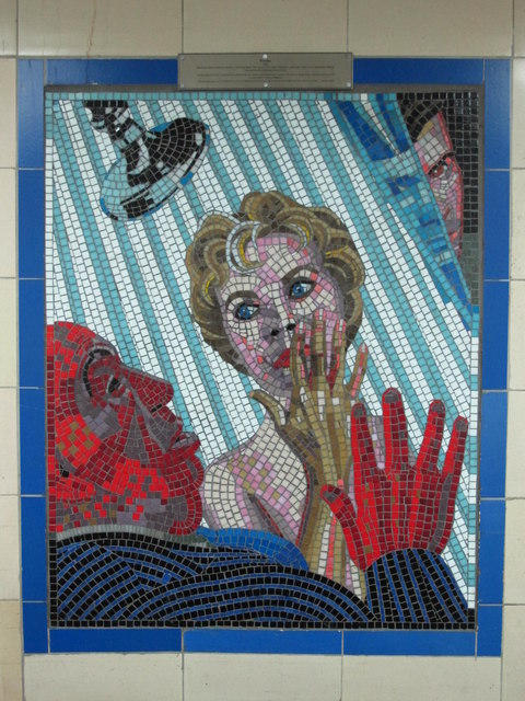 Leytonstone tube station - Hitchcock Gallery: Psycho (1960)